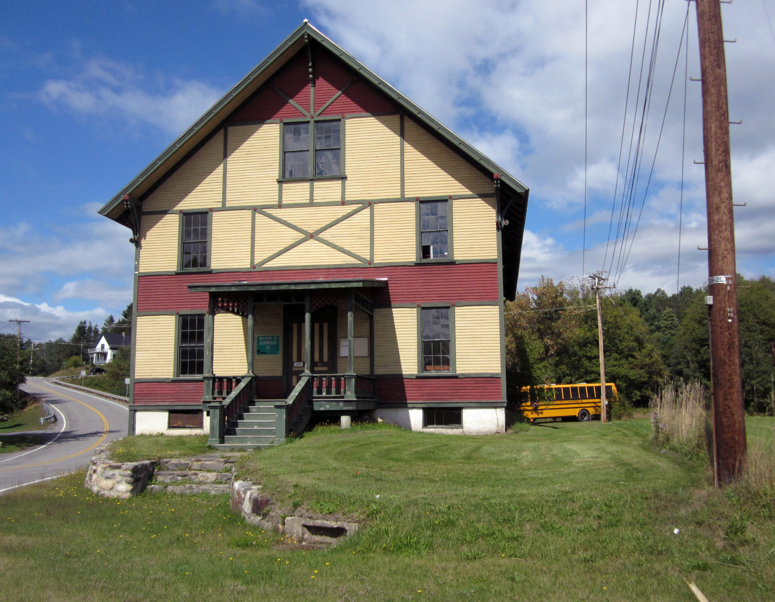 Original town hall for Bloomfield, Vermont.